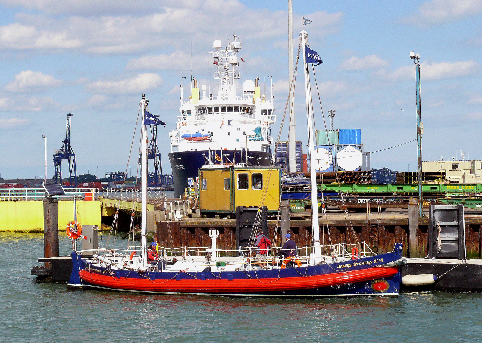 The James Stevens No14